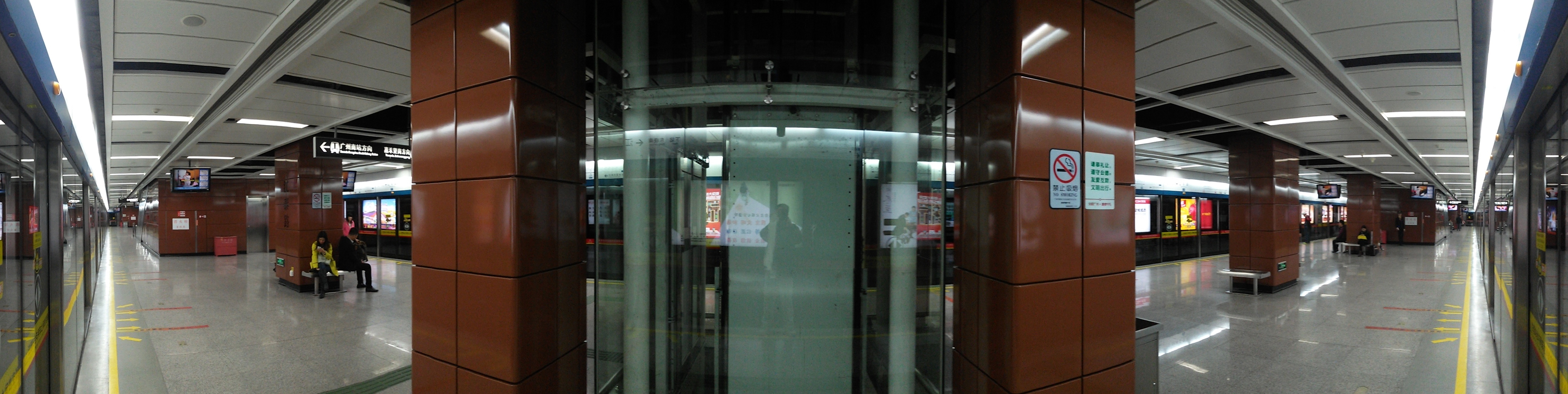 FULL SIGHT of Platform (Towards GZSRS) for Jiangtai Lu Station in Guangzhou Metro.